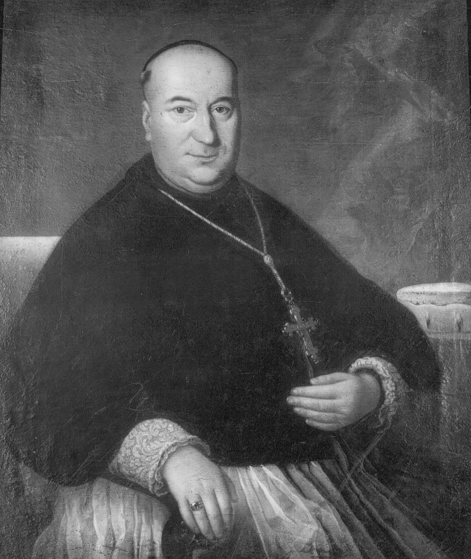 Portrait of Alexandre Delmotte, prince-abbot of Stavelot-Malmédy (1753-1766). Delmotte was the archivist of the abbey when the monks elected him as the new prince-abbot. The prince-abbots had seat and voice in the Imperial Diet (Reichstag) and ruled their ecclesiastical principality as sovereigns.